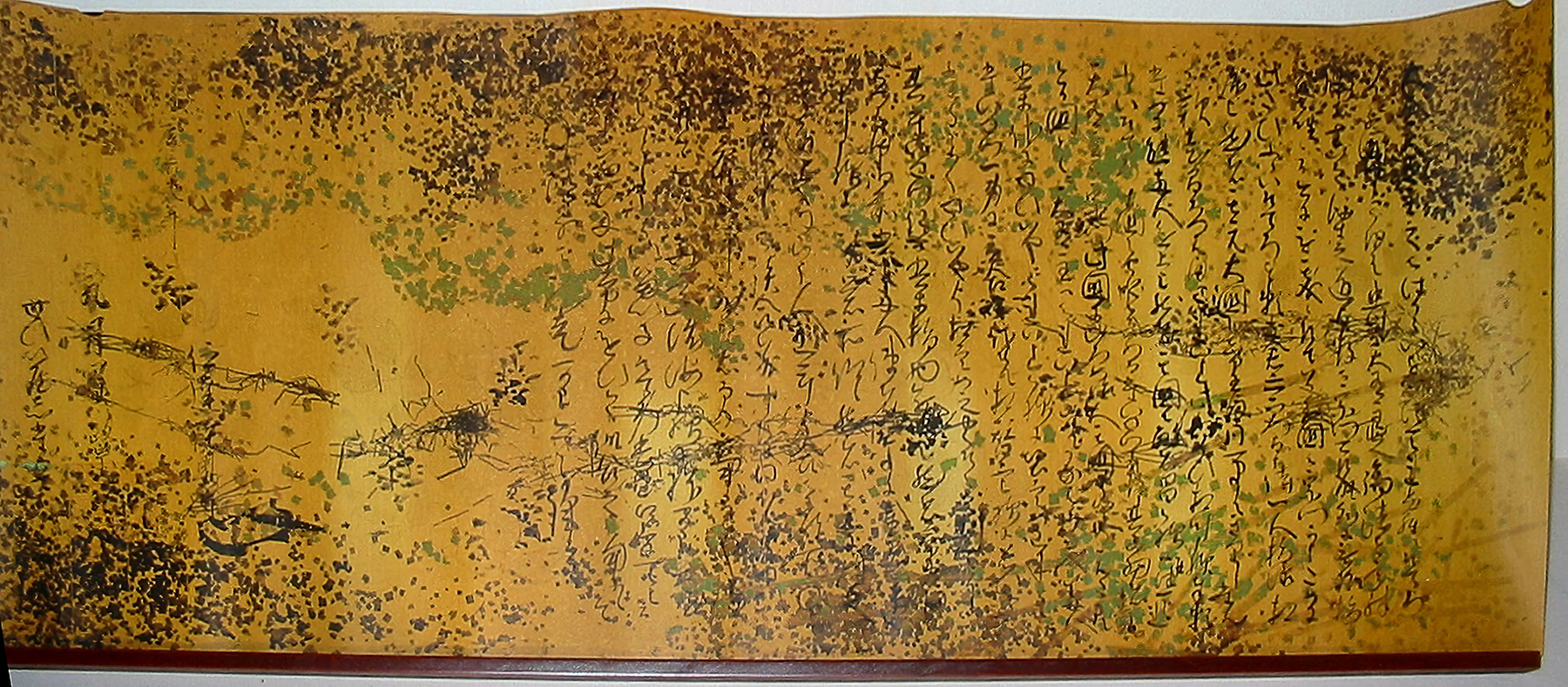 Historic letter from the first Japanese embassy in Spain, sent by Daimyo Date Masamune of Sendai in Seville Town Hall. Photo by E Asterion u talking to me? 00:24, 28 August 2006 (UTC)